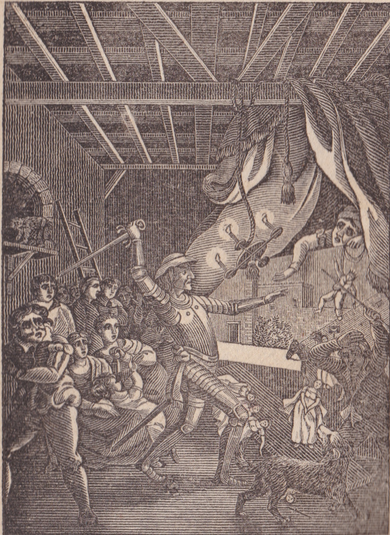 Don Quixote. Close up of Illustration. Don Quijote. Cerca de la ilustración.